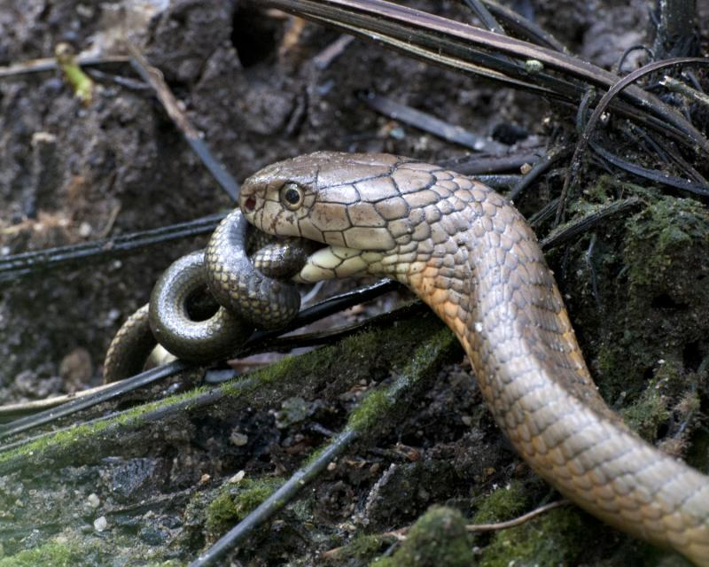 King Cobra Ophiophagus hannah eating a snake (Red-tailed Pipe Snake Cylindrophis ruffus, most likely) . Sungei Buloh Wetland Reserve, Singapore.